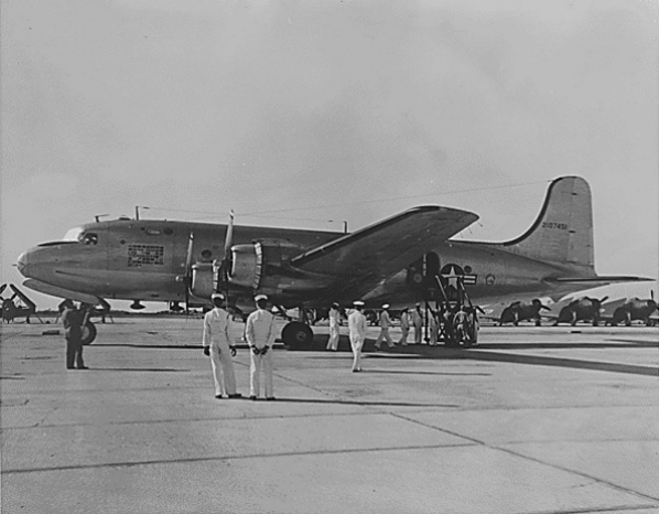 Photograph of U.S. President Harry S. Truman's airplane, a Douglas VC-54C Skymaster (s/n 42-107451) nicknamed "The Sacred Cow", shortly after arrival at Boca Chica, near Key West, Florida (USA) on 20 February 1948. The aircraft is today as "42-72252" on display at the National Museum of the USAF. Originally 42-72252 was C-54A-15-DC (c/n 10357/DC88) missing since 11 November 1944 over the South Atlantic. This serial number was used by the VC-54C 42-107451 when it flew President Franklin D. Roosevelt to the Yalta Conference in 1945 (probably out of security reasons).